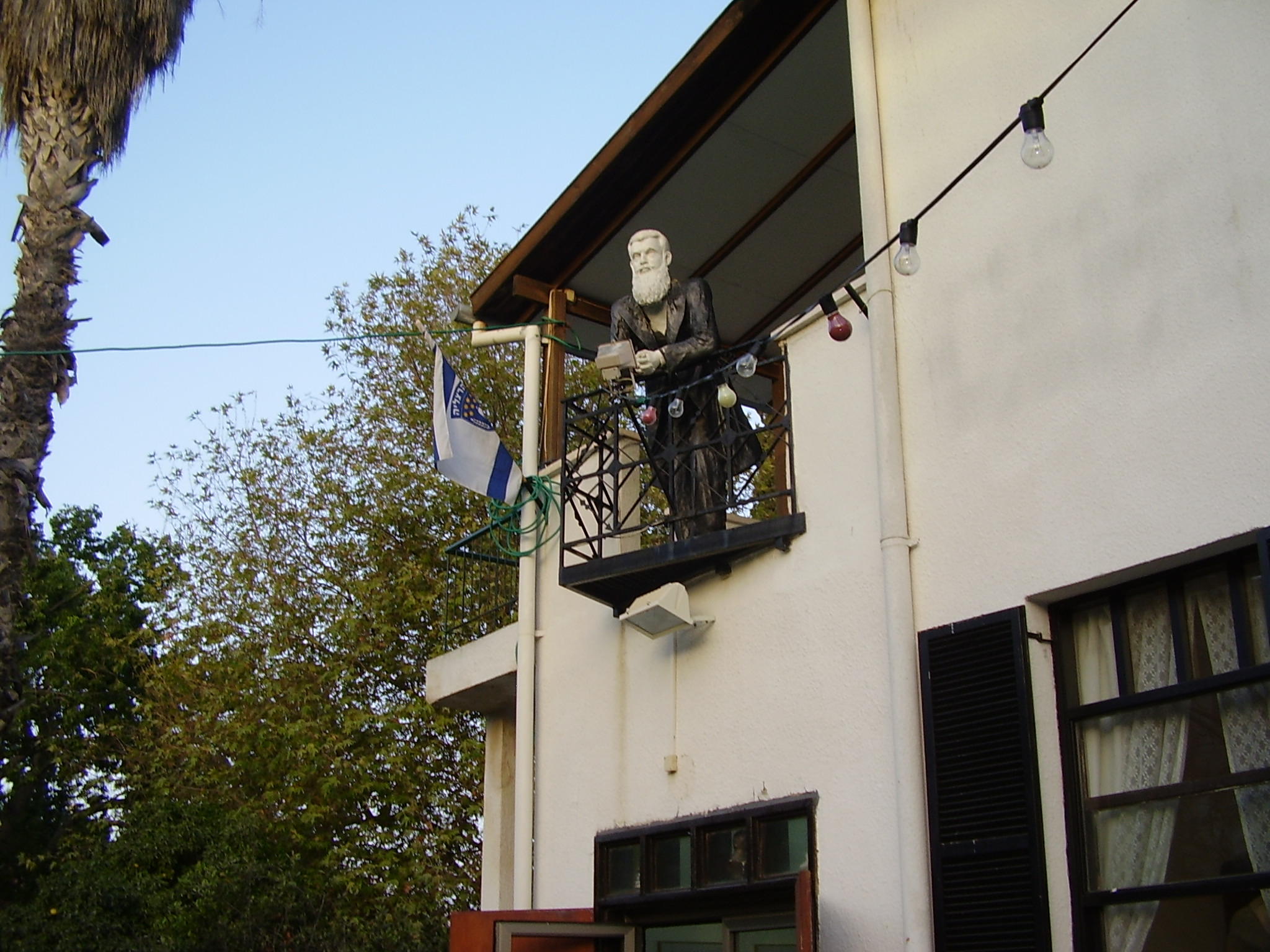 herzl in herzlia historical museum